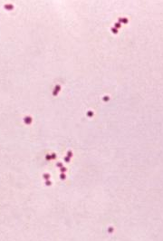 This micrograph depicts the presence of aerobic Gram-negative Neisseria meningitidis diplococcal bacteria; Mag. 1150X. Meningococcal disease is an infection caused by a bacterium called N. meningitidis or the meningococcus. The meningococcus lives in the throat of 5-10% of healthy people. Rarely, it can cause serious illness such as meningitis or blood infection.